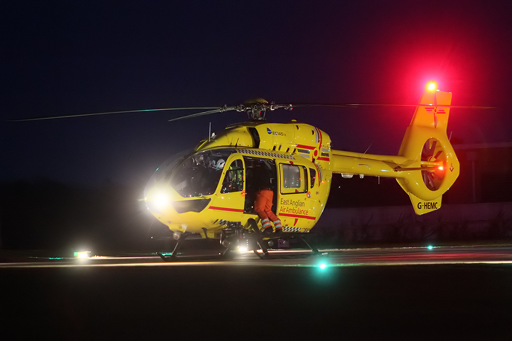 G-HEMC Airbus Helicopters EC145T2 @ Norfolk and Norwich University Hospital 28/01/2017